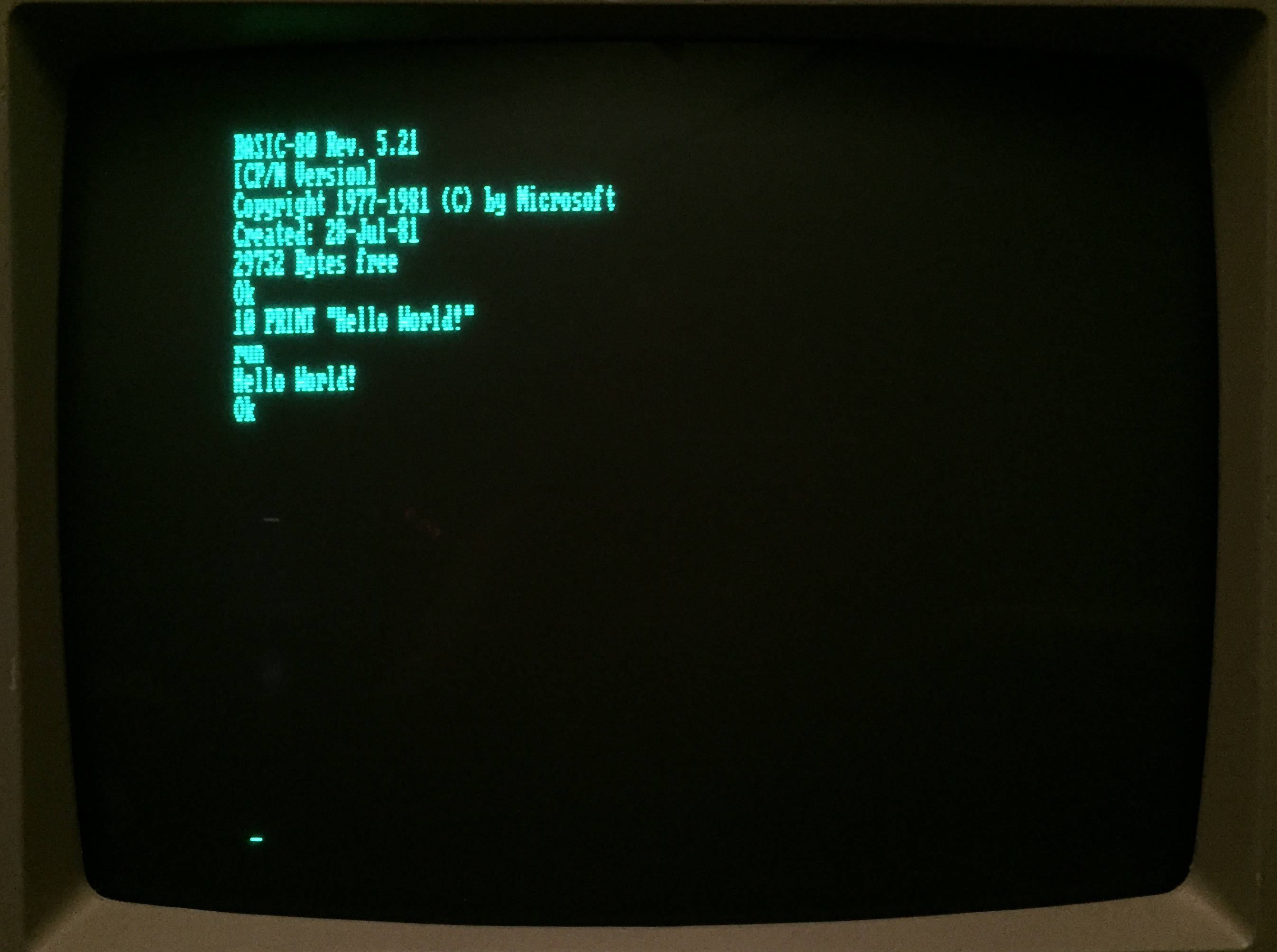 Screenshot of Basic 5.21 running on a Z80 CP/M system.